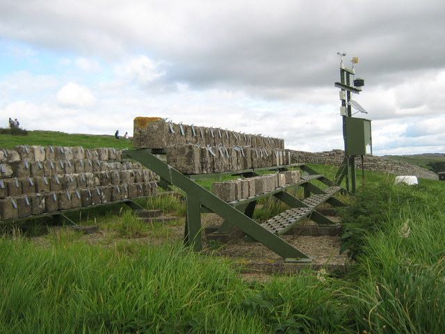 Testing weathering of masonry, Housesteads Each block labelled for this research about 100m west of the Roman Fort on Hadrian's Wall